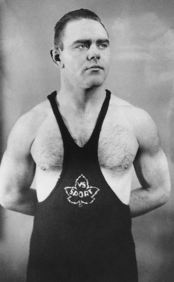 Portrait of Estonian wrestler and Olympic medalist August Neo (Ago Neo; 1908–1982).